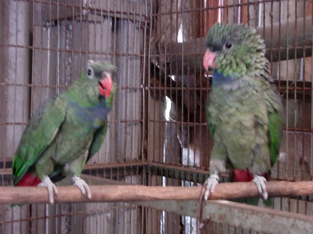 Red-billed Parrot (also known ans the Red-billed Pionus); two captive.